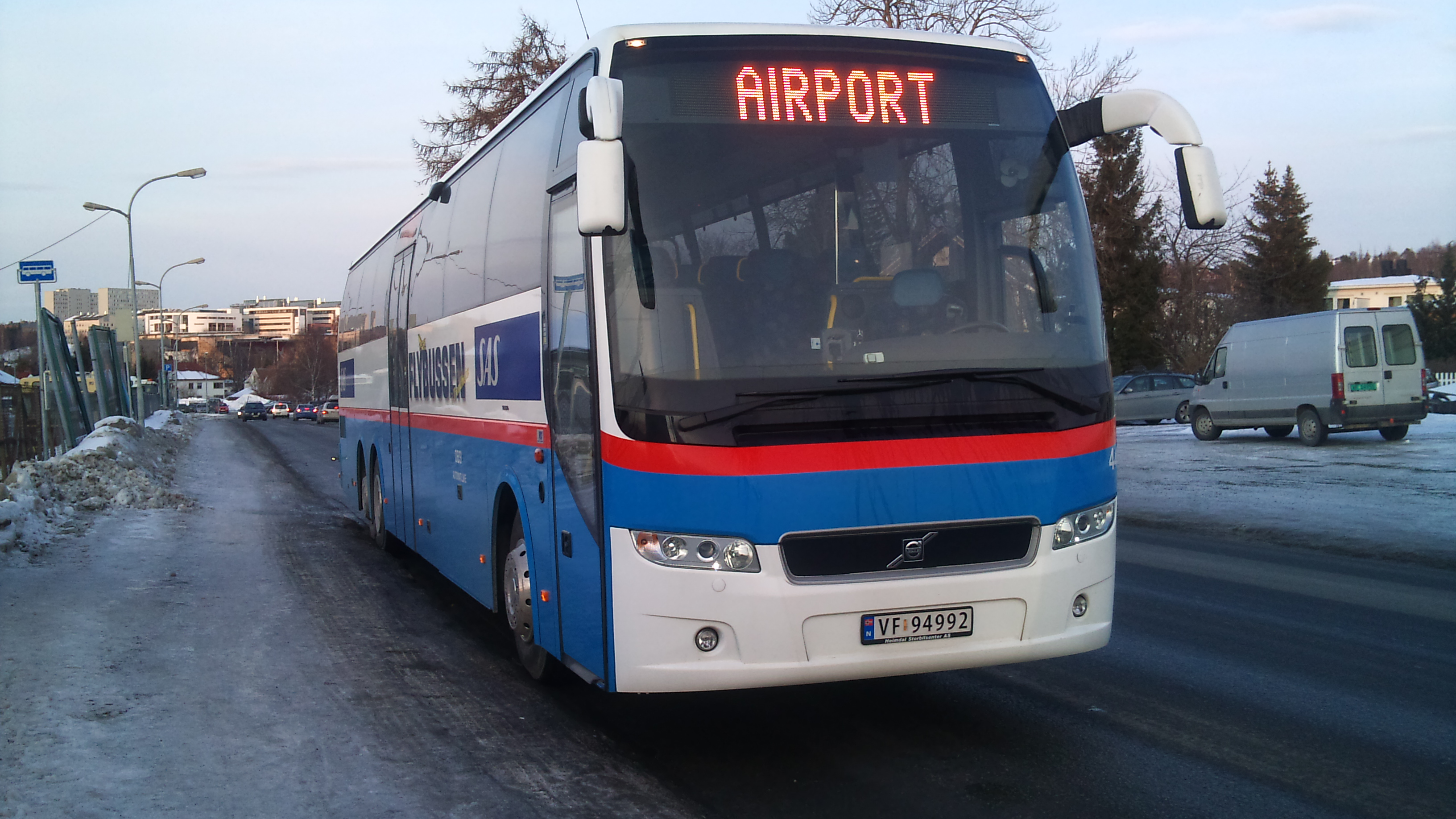 Airport express at the first stop in Trondheim, destination Trondheim international airport Værnes.